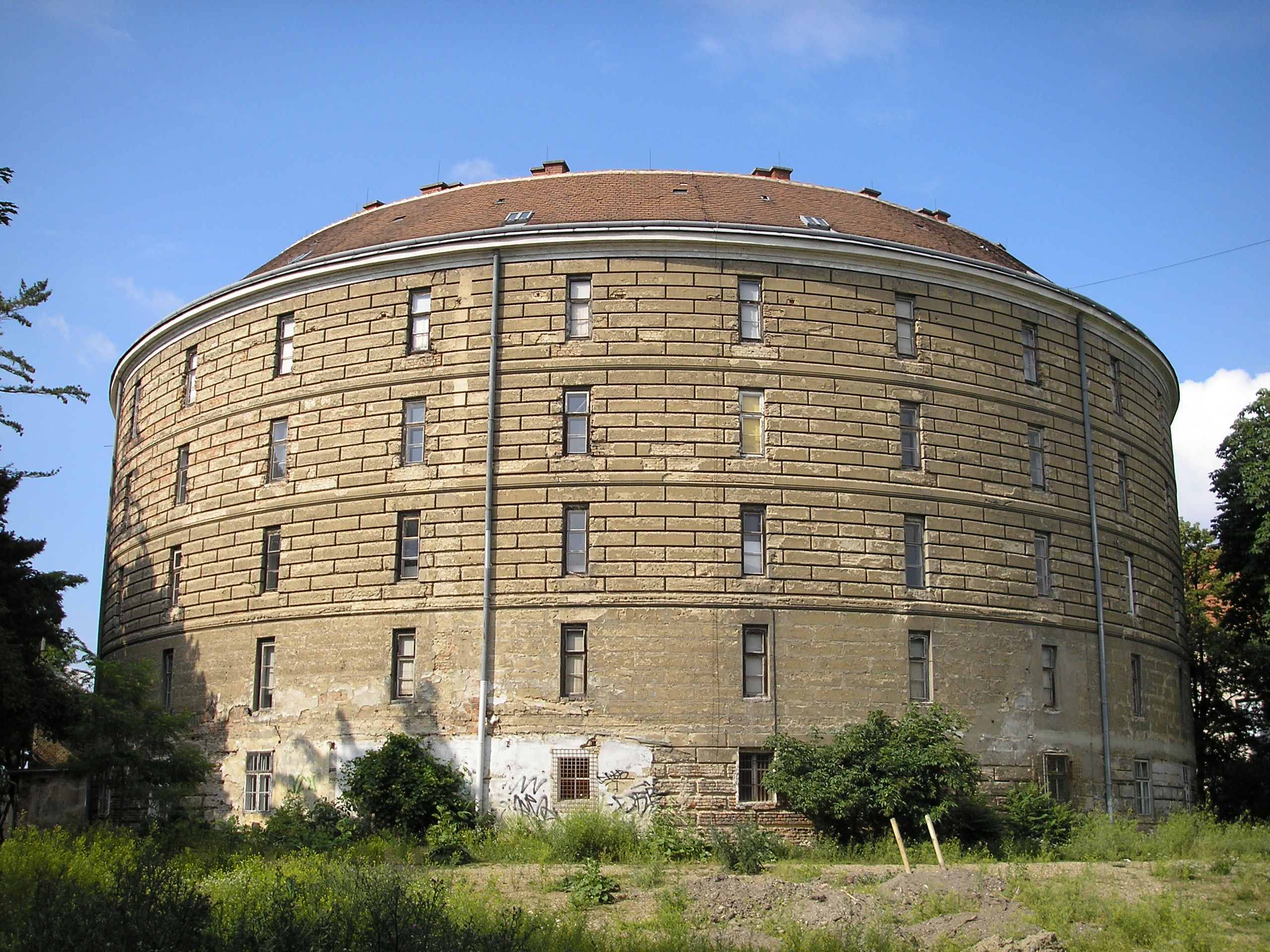 View of the Narrenturm in the campus of the University of Vienna.